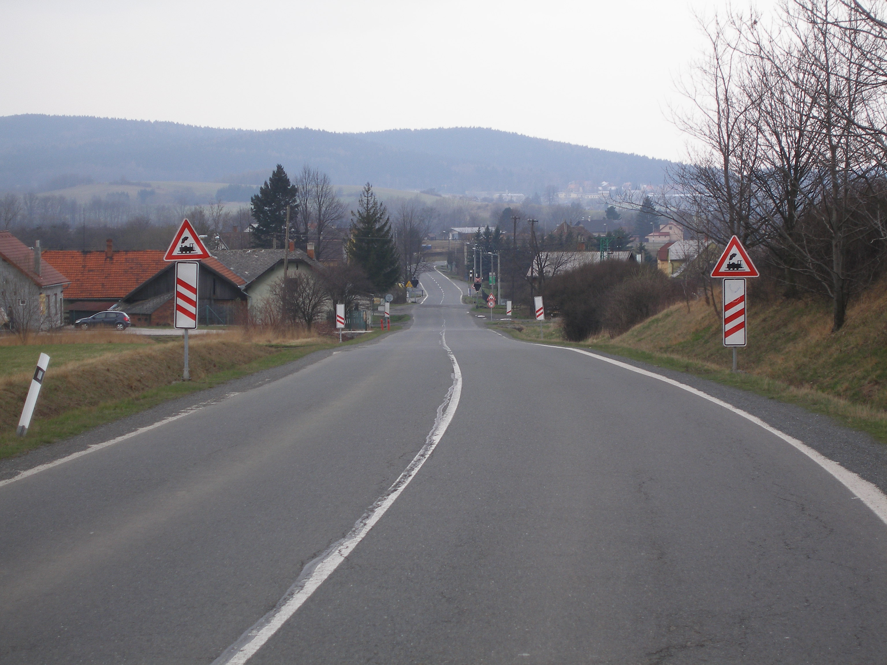 Road II/483 near Mořkov.